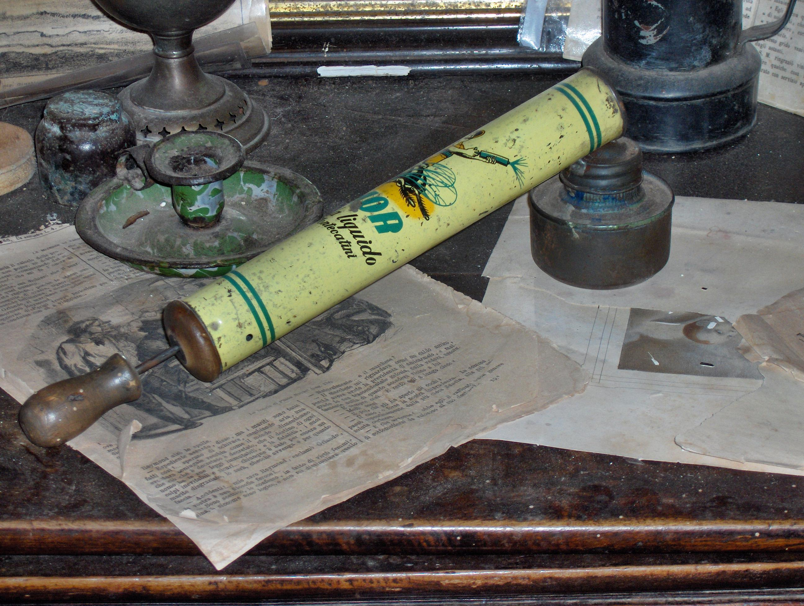 Fly spray; Ethnographic Museum of Western Liguria; Cervo, Flower Riviera, Italy